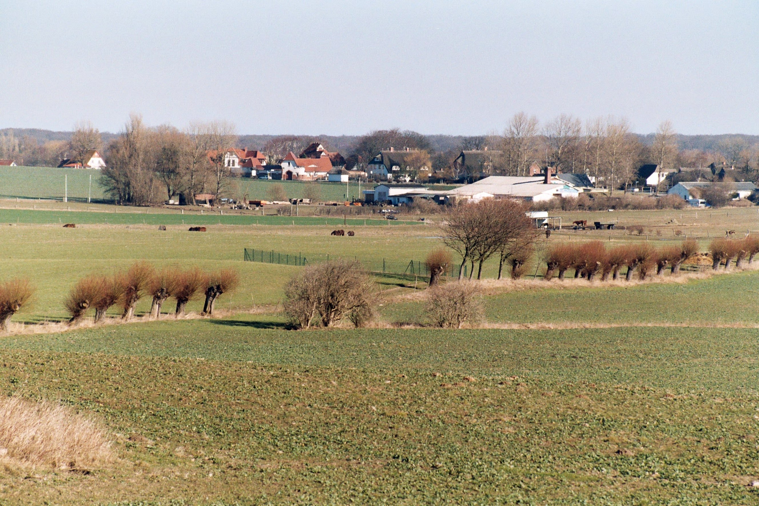 Niehagen (Ahrenshoop), view to the village